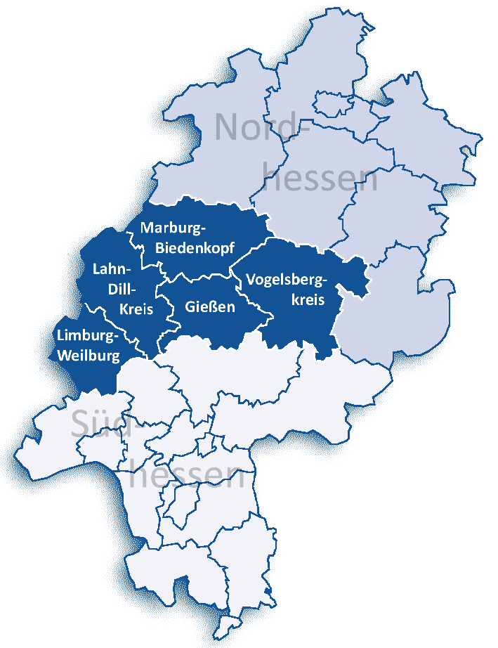 The map shows the districts in the Regierungsbezirk Gießen